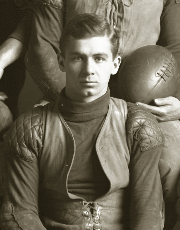 Billy Wasmund cropped from 1907 University of Michigan football team